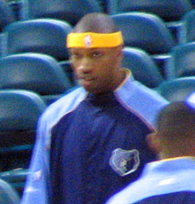 Stromile Swift warms up before the start of a 2005 Bobcats game in Charlotte, NC.